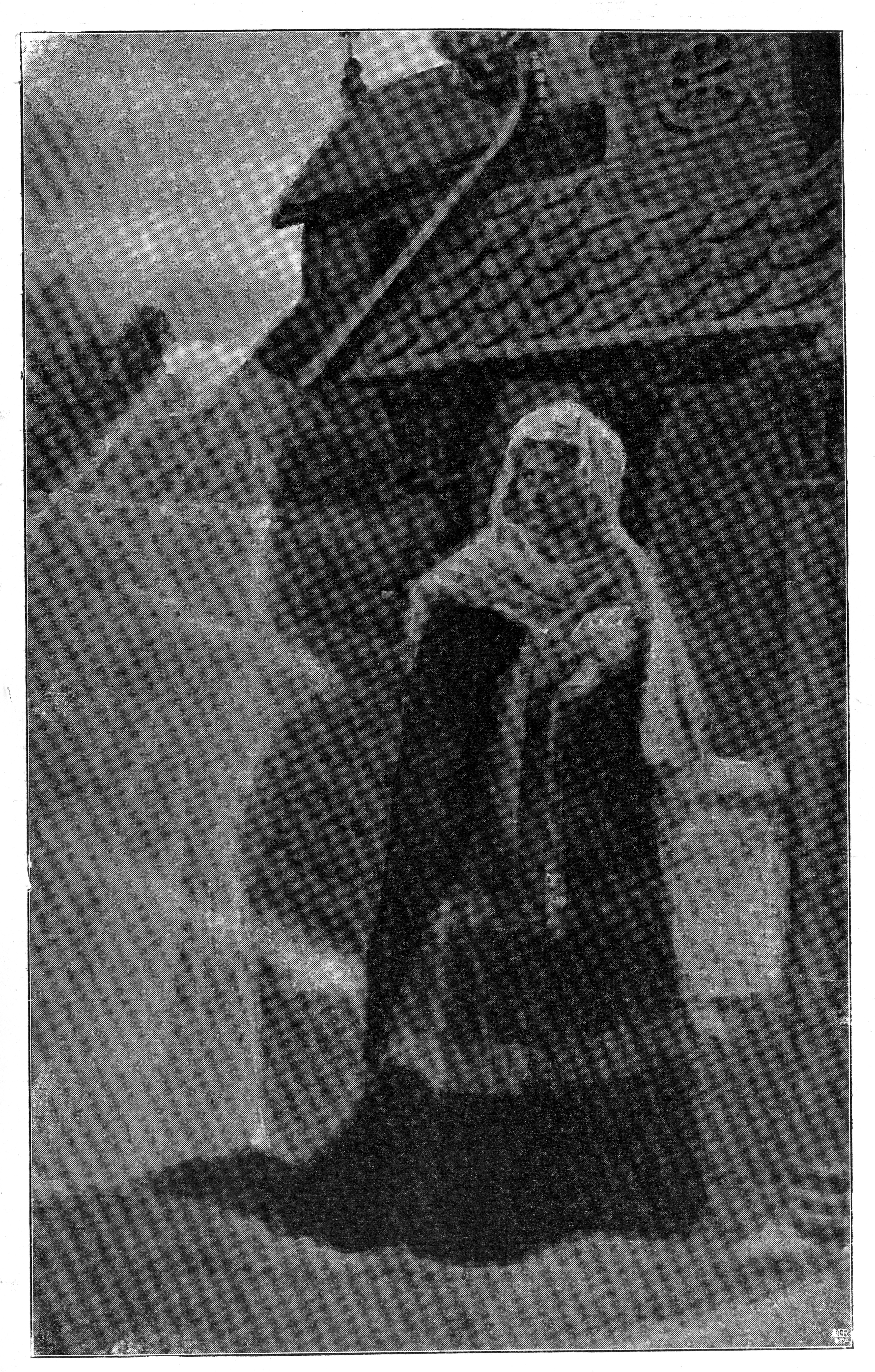 From the Laxdæla Saga: "That same evening that Thorkell and his followers were drowned, it happened at Holyfell that Guðrún went to the church, when other people had gone to bed, and when she stepped into the lich-gate she saw a ghost standing before her. He bowed over her and said, 'Great tidings, Guðrún.' She said, 'Hold then your peace about them, wretch.' Illustration from "Vore fædres liv" : karakterer og skildringer fra sagatiden / samlet og udggivet af Nordahl Rolfsen ; oversættelsen ved Gerhard Gran., Kristiania: Stenersen, 1898. English description translated from Icelandic by Muriel A C Press in 1880.